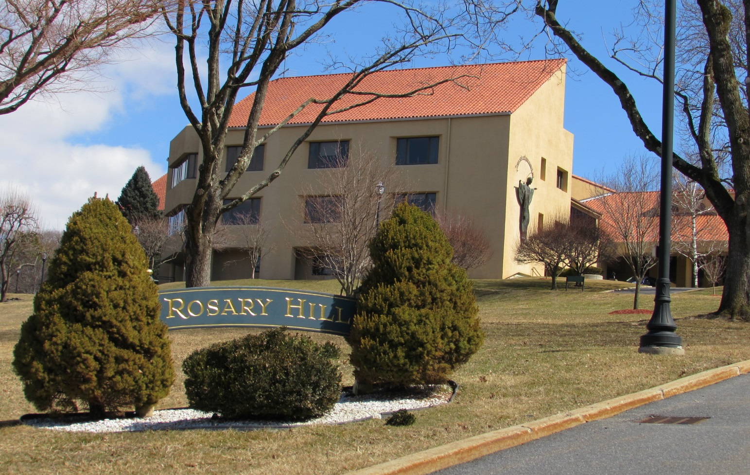 Exterior of Rosary Hill Home, a nursing home/medical center run by the Dominican Sisters of Hawthorne in Hawthorne, New York. The order was founded in part by Rose Hawthorne Lathrop, daughter of American author Nathaniel Hawthorne. March 2014.